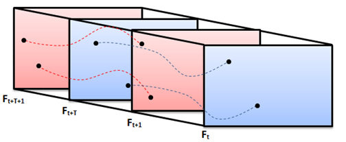 Frame tracking